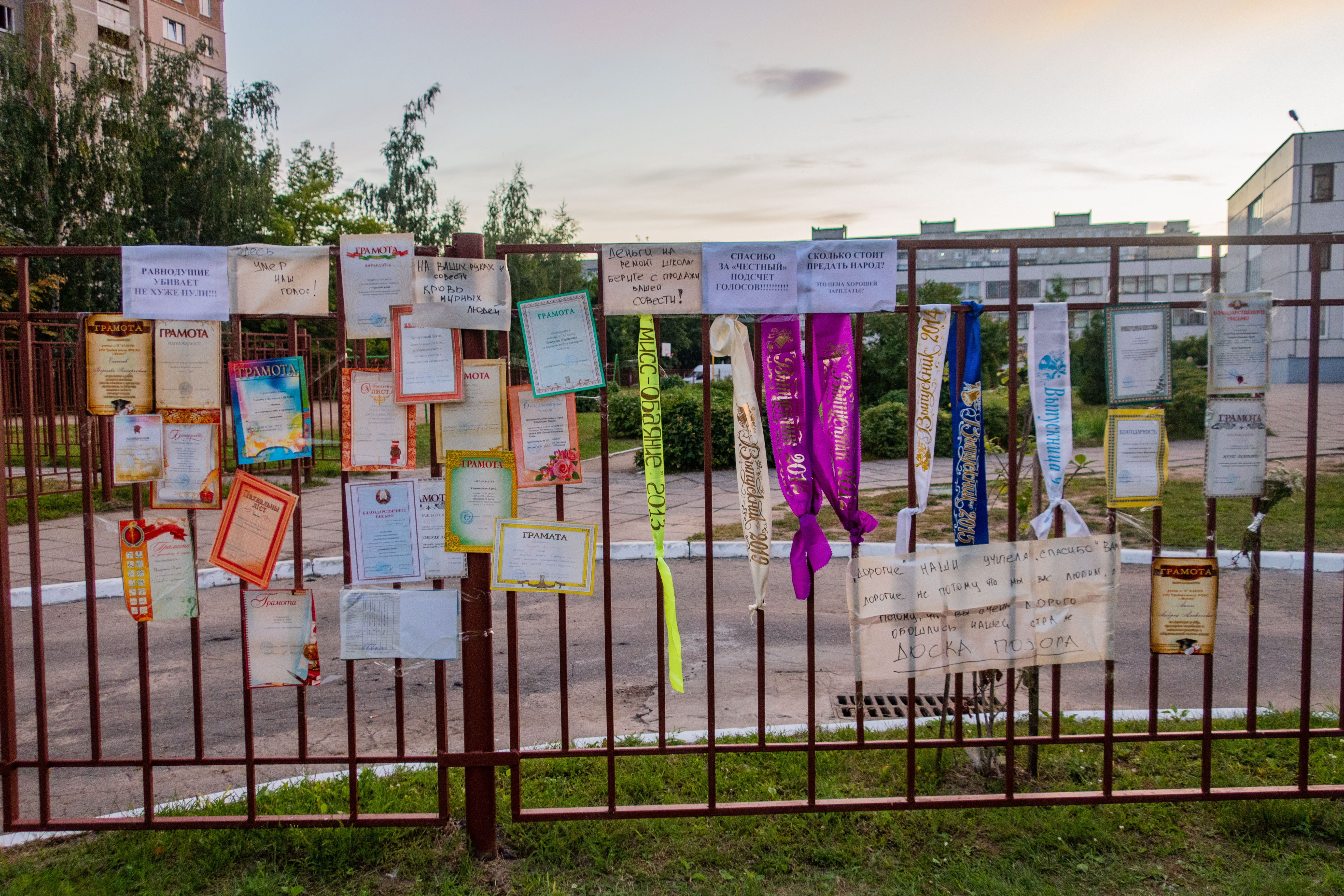 So-called "wall of shame" with diplomas issued by the school, graduate sashes and a school beauty pageant ribbon. Inscriptions are: "Here died my vote!", "Blood of innocent people is on your hands!", "Thanks for "honest" count of votes!!!", "How much does betrayal of the people cost? Is it worth good salary?", etc. They refer to presumable falsification of 2020 Belarusian presidential election: one of the polling stations was situated in this school with teachers being in the election committee. Minsk, Belarus